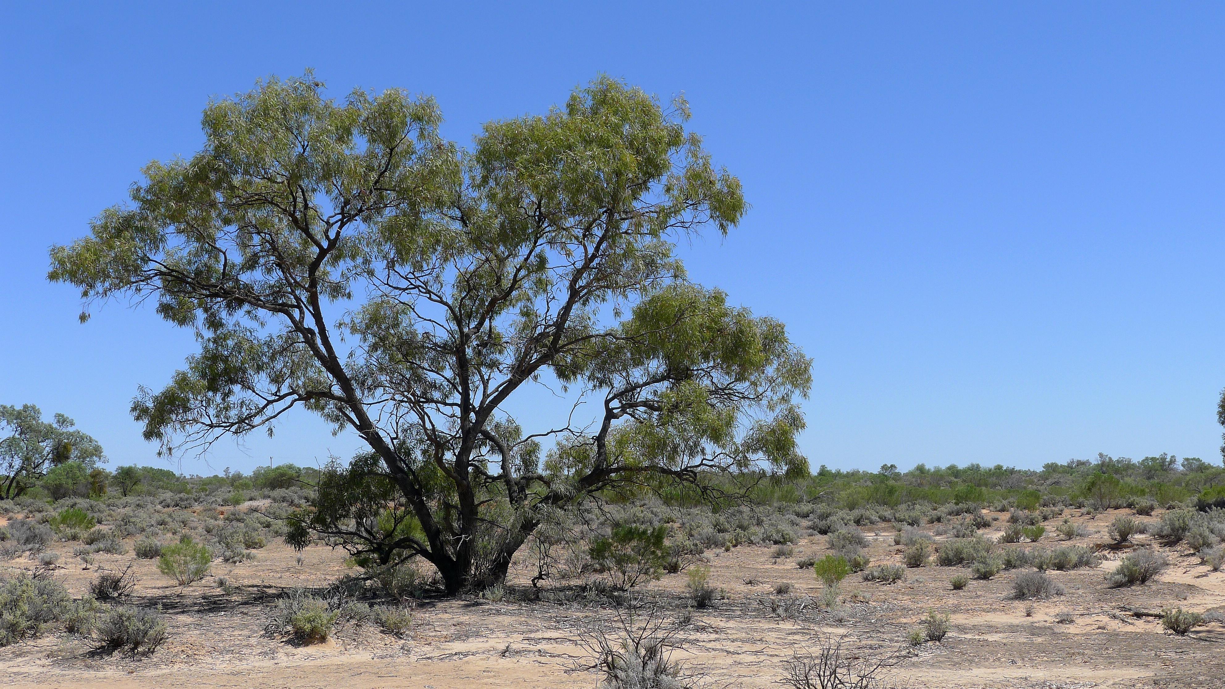 Black Box, Eucalyptus largiflorens, habit. Kinchega National Park, NSW, Australia, November 2014.